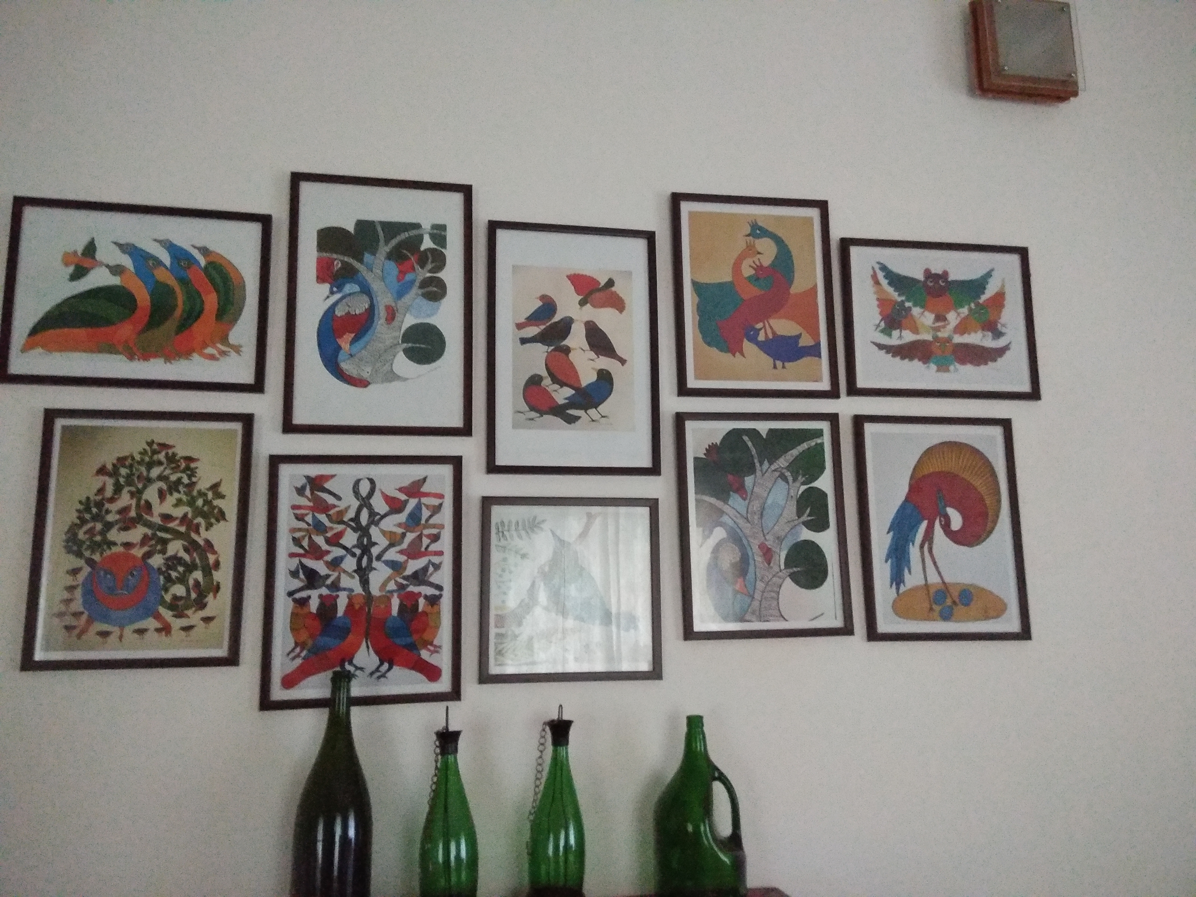 Mandarem House Goa